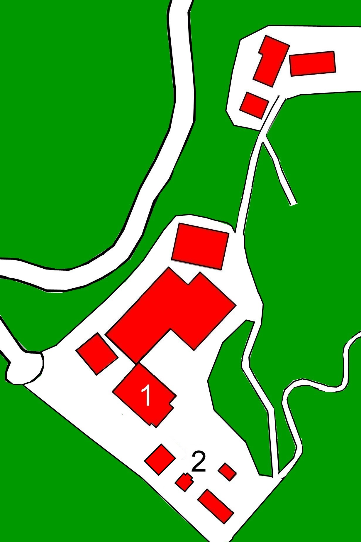 Layout of Senyû-ji temple in Japan, Ehime Prefecture